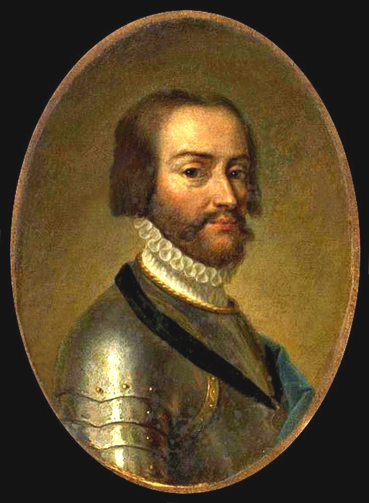 Portrait of Charles IV de Bourbon, Duc de Vendôme (1489—1536) (bust, three-quarters, collar, armor). Oil on canvas. Measures: H. 18", L.13" (45.72 x 33.02 cm) (oval)